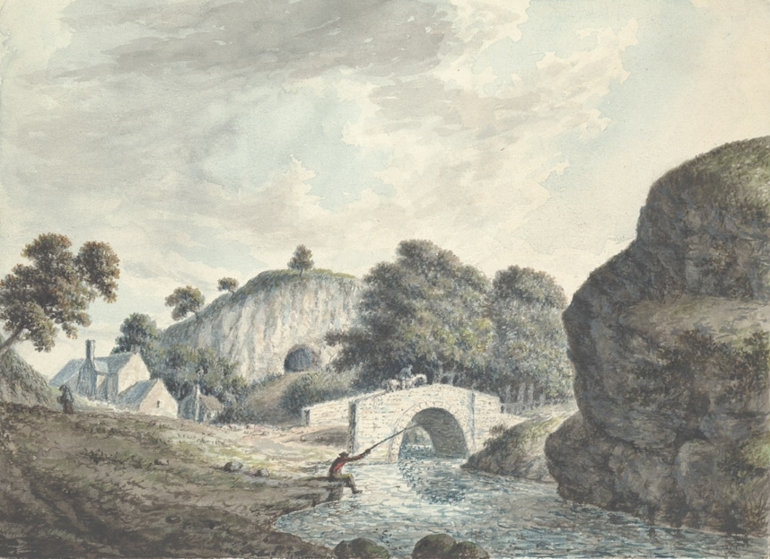 Tommen y Vardra & cave, Llanarmon, c.1795